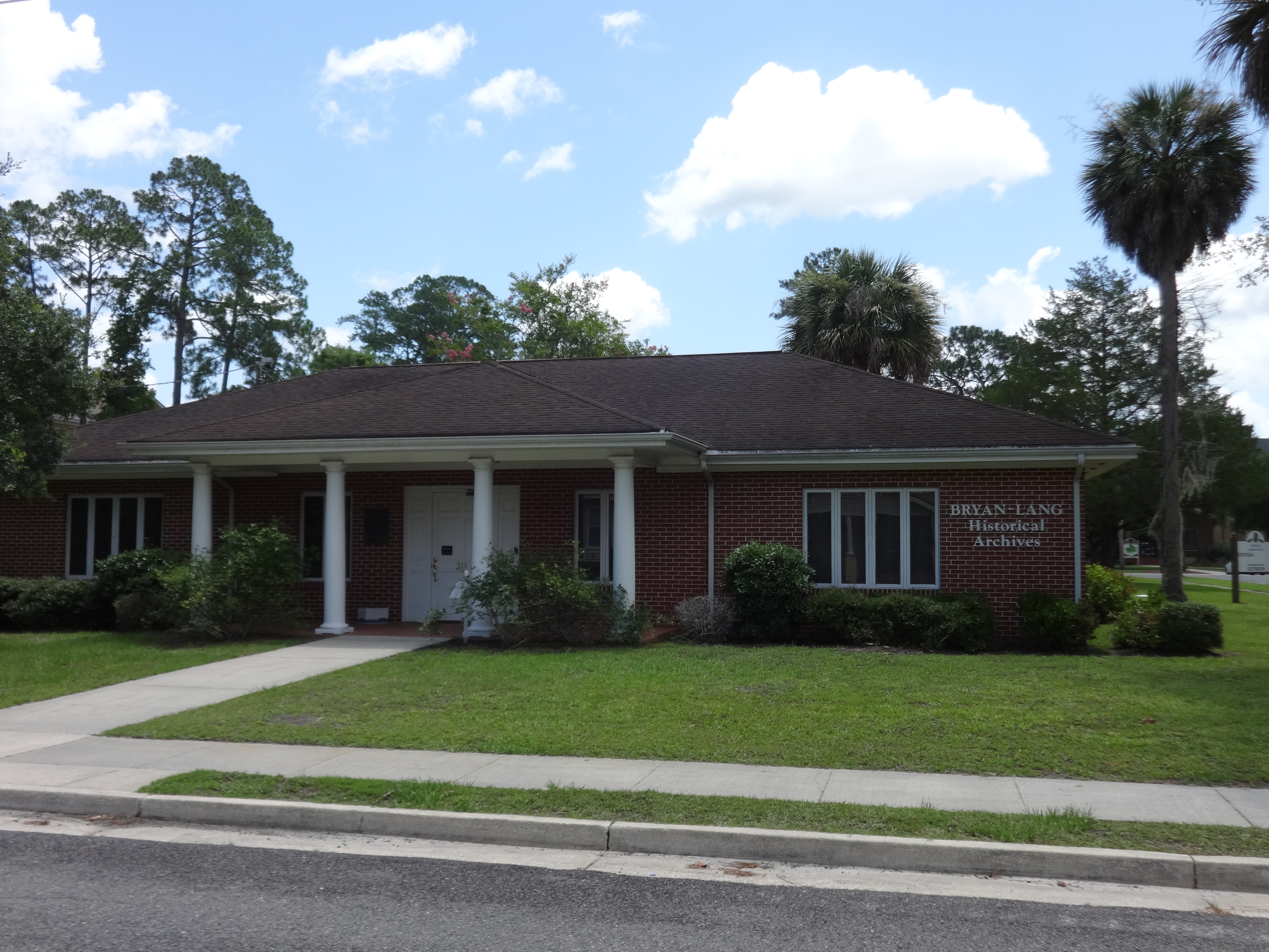 Woodbine, Camden County, Georgia